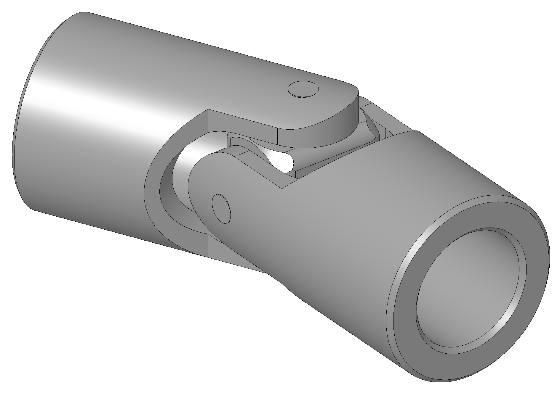 3D-view of a cardan joint according to DIN 808 (August 1984), type E (single).